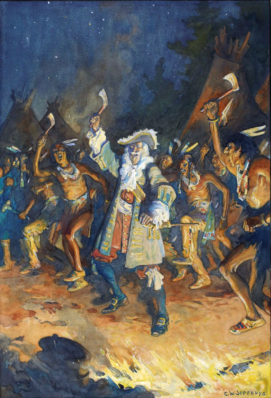 Frontenac with the Indians. LAC description: Frontenac dancing the war dance, 1690. Watercolour over pencil on commercial board. Support: 30.70 x 44.90.